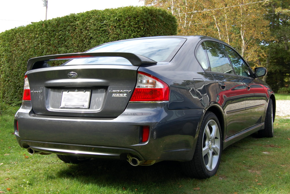 Rear Three Quarter View of a 2009 Subaru Legacy 2.5i SE sedan